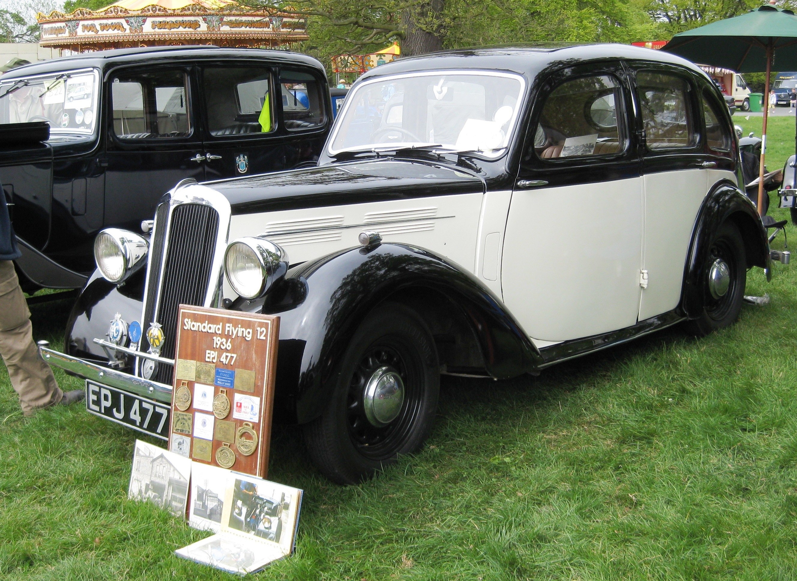 Standard Flying 12 at Weston Park Transport Fair